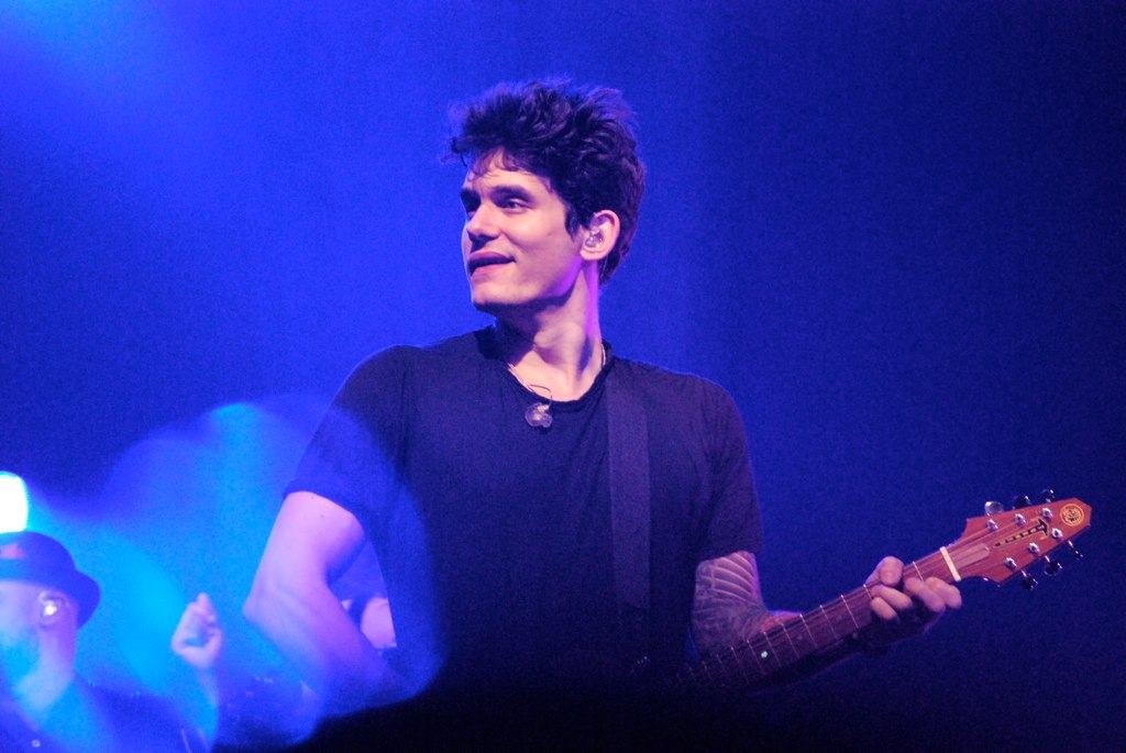 John Mayer performing live at State Farm Arena in Atlanta, Georgia in March 17, 2010. The concert was part of the Battle Studies World Tour.